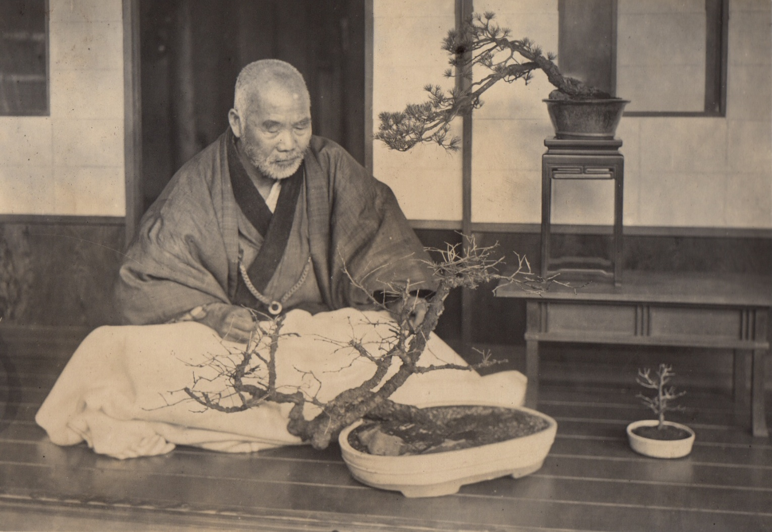 My spouse's uncle Elstner Hilton took this photo in Japan between 1914 and 1918.